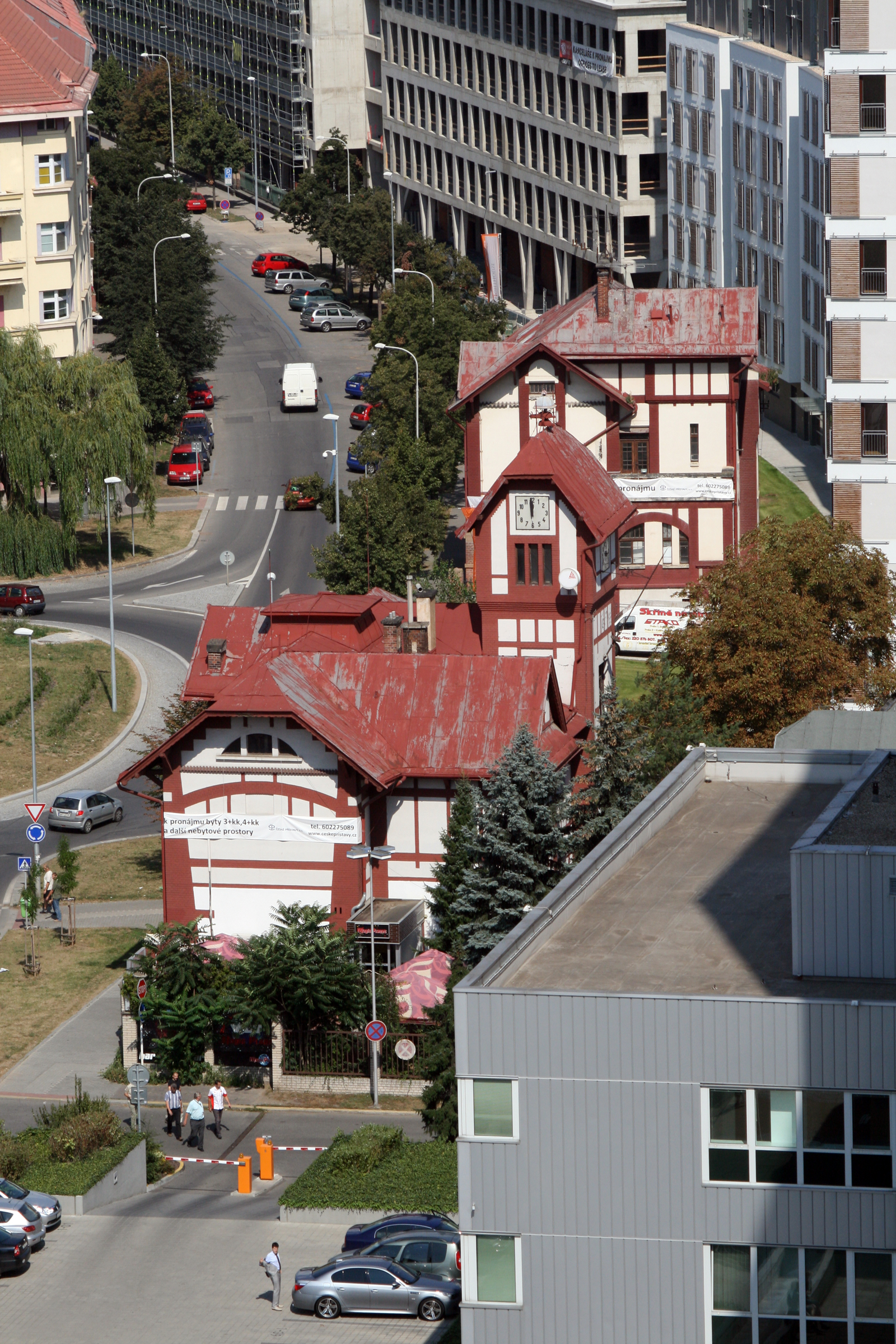 View on buldings of Holešovice Vltava port in Prague from the top of Lighthouse Vltava Waterfront Towers, Czech Republic